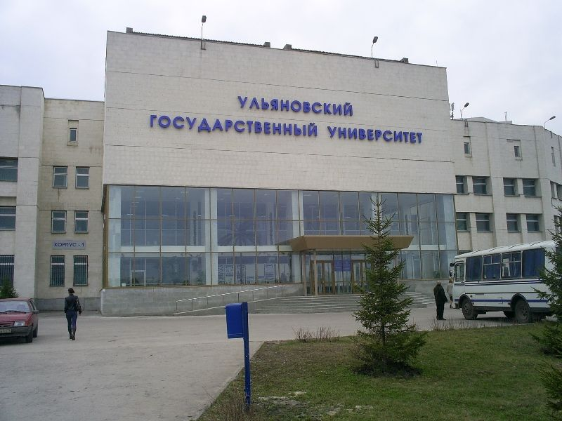 2=UlSU main building